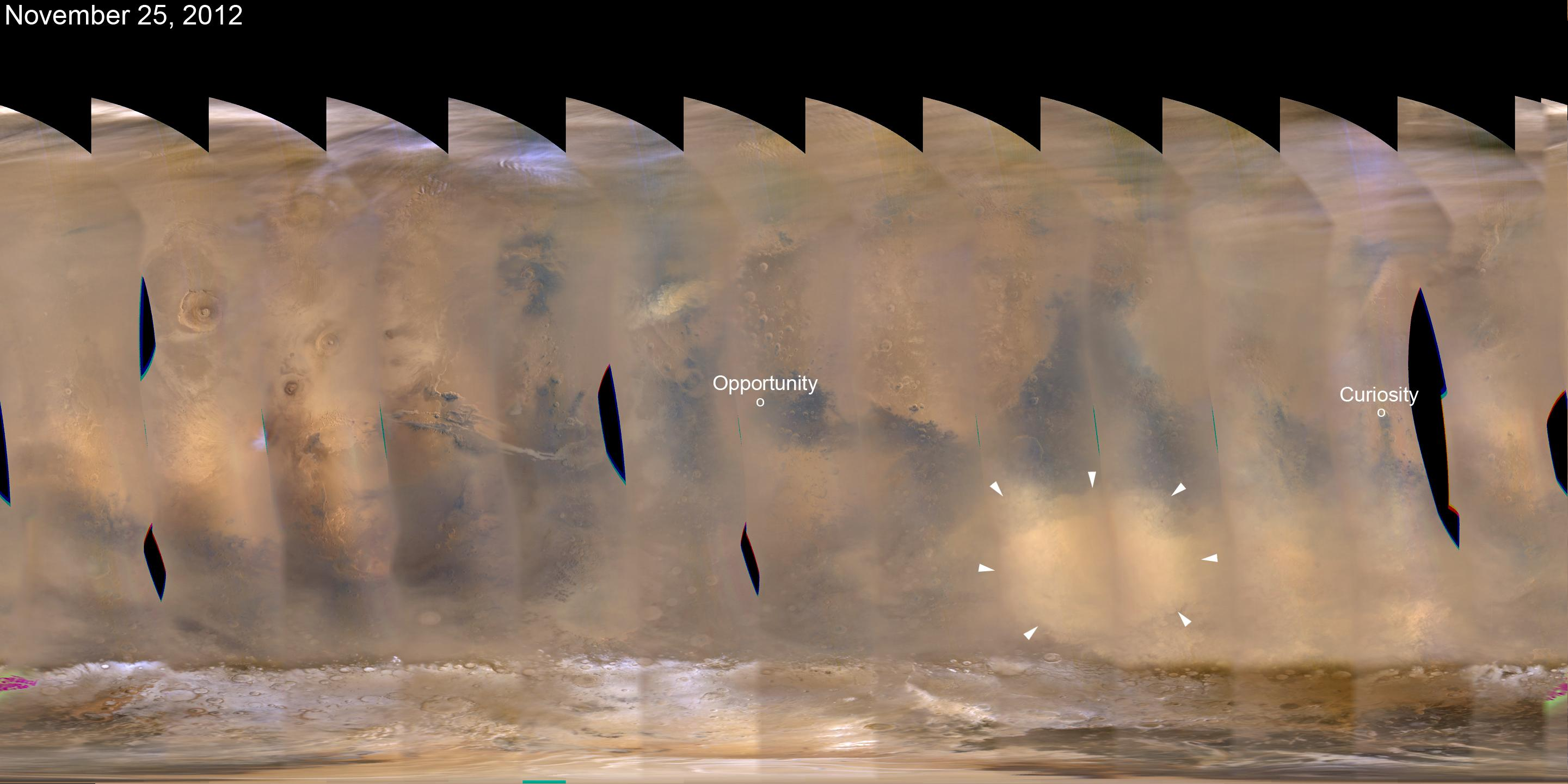 A regional dust storm visible in the southern hemisphere of Mars in this nearly global mosaic of observations made by the Mars Color Imager on NASA's Mars Reconnaissance Orbiter on Nov. 25, 2012, has contracted from its size a week earlier (PIA16450). Small white arrows outline the area where dust from the storm is apparent in the atmosphere. Locations of NASA's Mars rovers Opportunity and Curiosity are labeled. A newer, smaller dust storm is visible northwest of Opportunity. Black areas in the mosaic are the result of data drops or high angle roll maneuvers by the orbiter that limit the camera's view of the planet. Equally-spaced blurry areas that run from south-to-north (bottom-to-top) result from the high off-nadir viewing geometry, a product of the spacecraft's low-orbit. Malin Space Science Systems, San Diego, provided and operates the Mars Color Imager. NASA's Jet Propulsion Laboratory, a division of the California Institute of Technology in Pasadena, manages the Mars Reconnaissance Orbiter for NASA's Science Mission Directorate, Washington. Lockheed Martin Space Systems, Denver, is the prime contractor for the project and built the spacecraft.